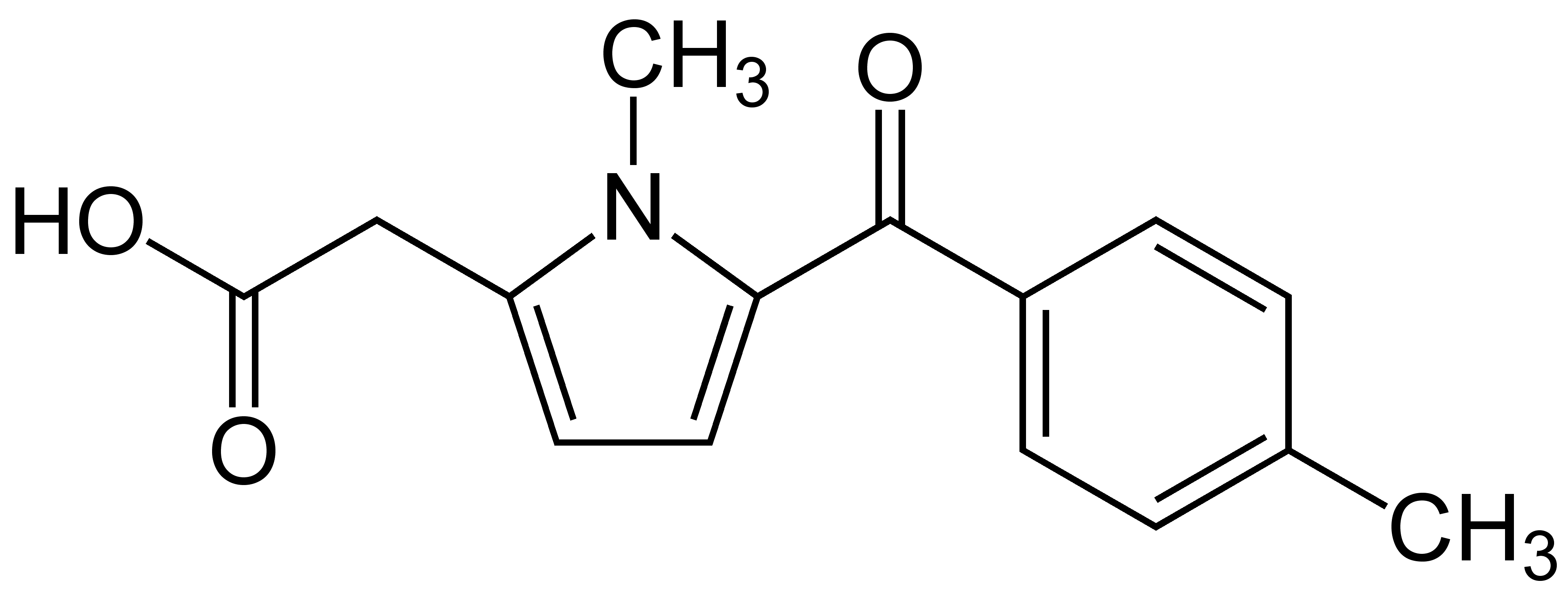 Tolmetin_Structural_Formulae